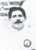 French-Spanish Real Madrid's footballer Pedro Parages.